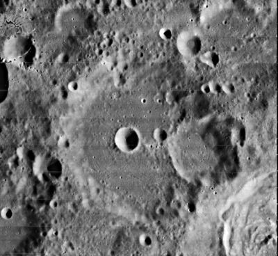 Zagut crater image LO-IV-088-h3